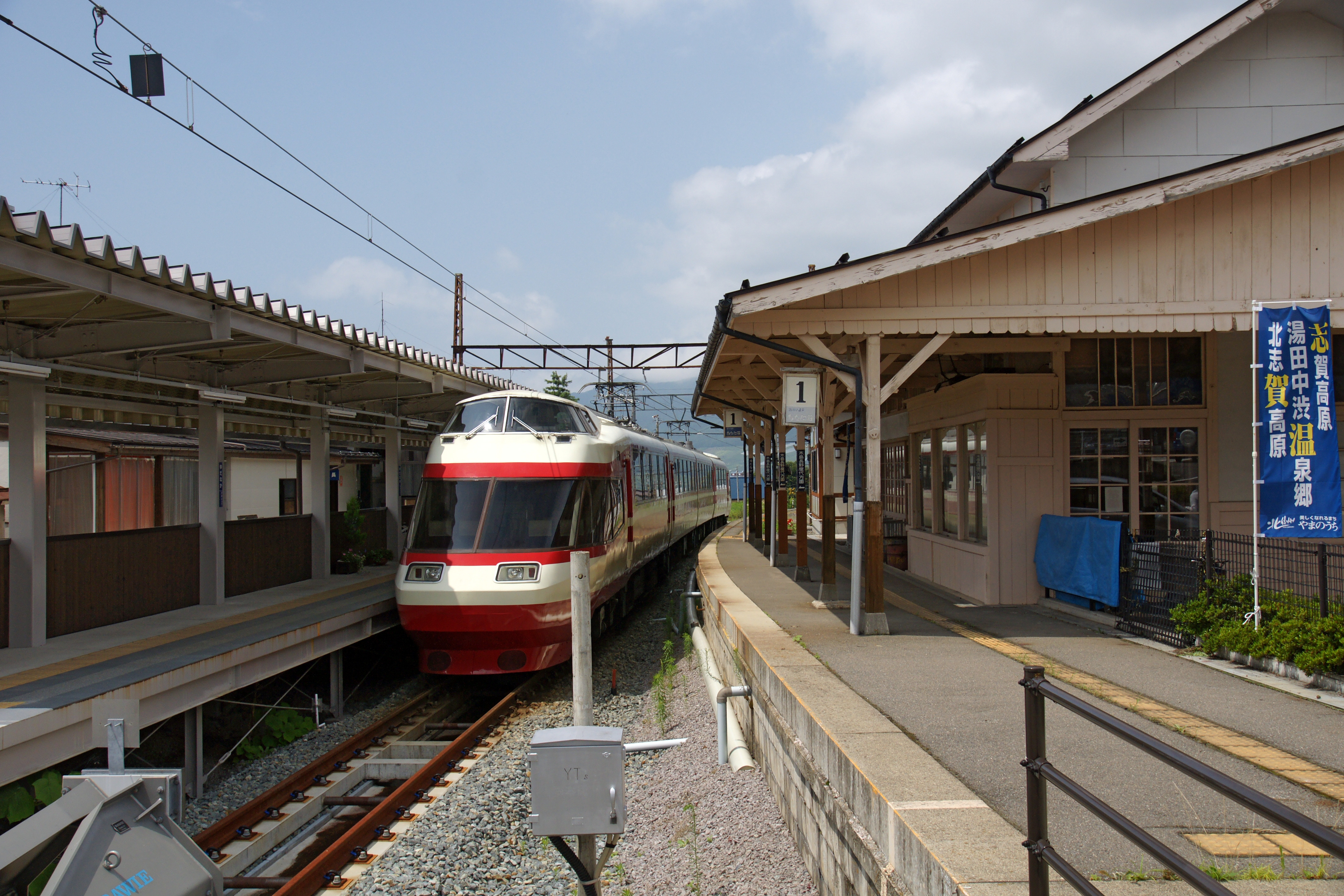 Yudanaka Station on the Nagano Dentetsu Line in Yamanouchi, Nagano Prefecture, Japan